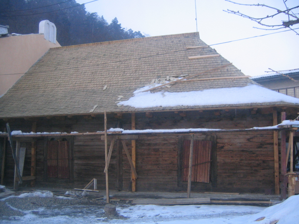 The old wooden synagouge in Piatra Neamt, Romania